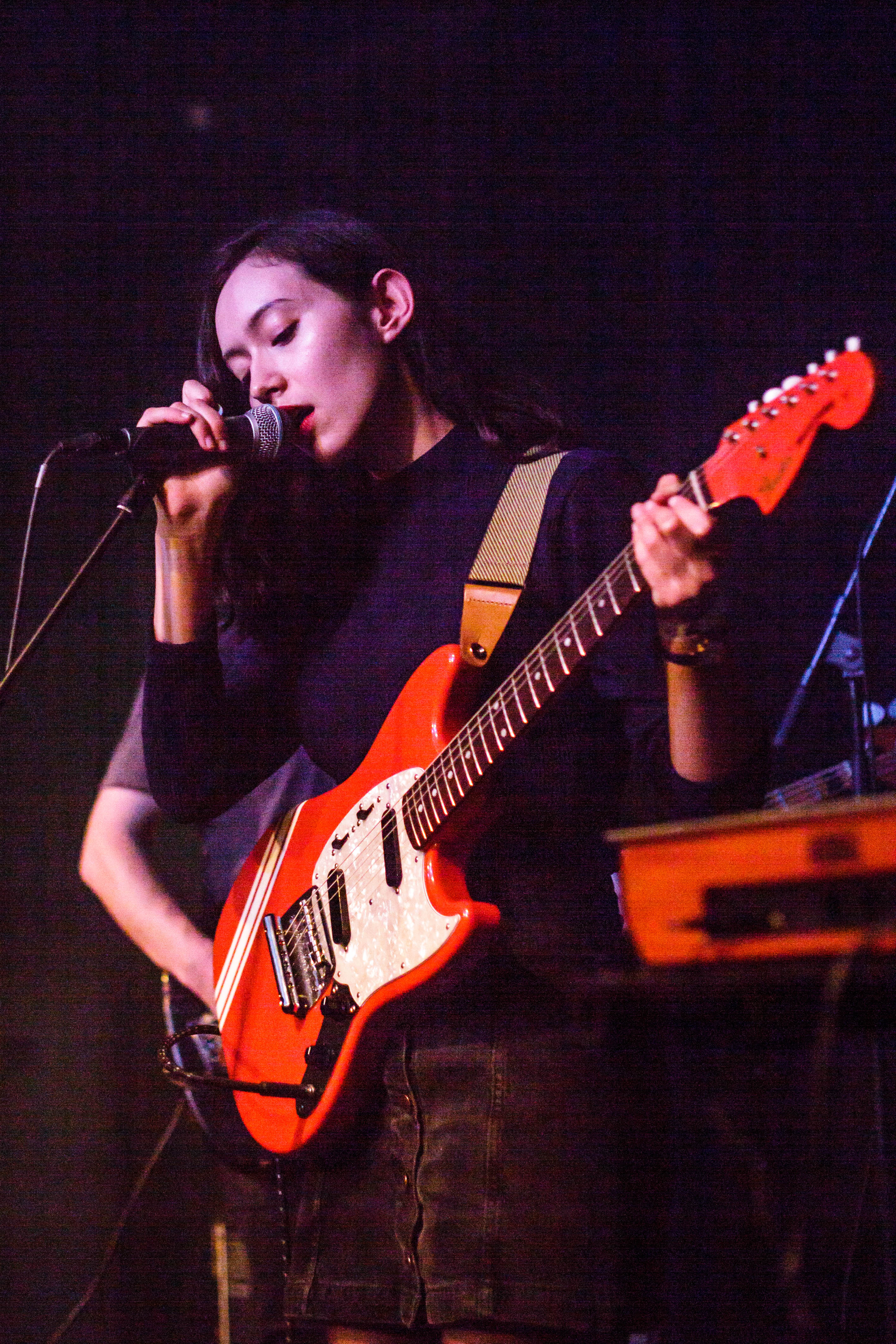 Fazerdaze at Way Back When Festival 2017